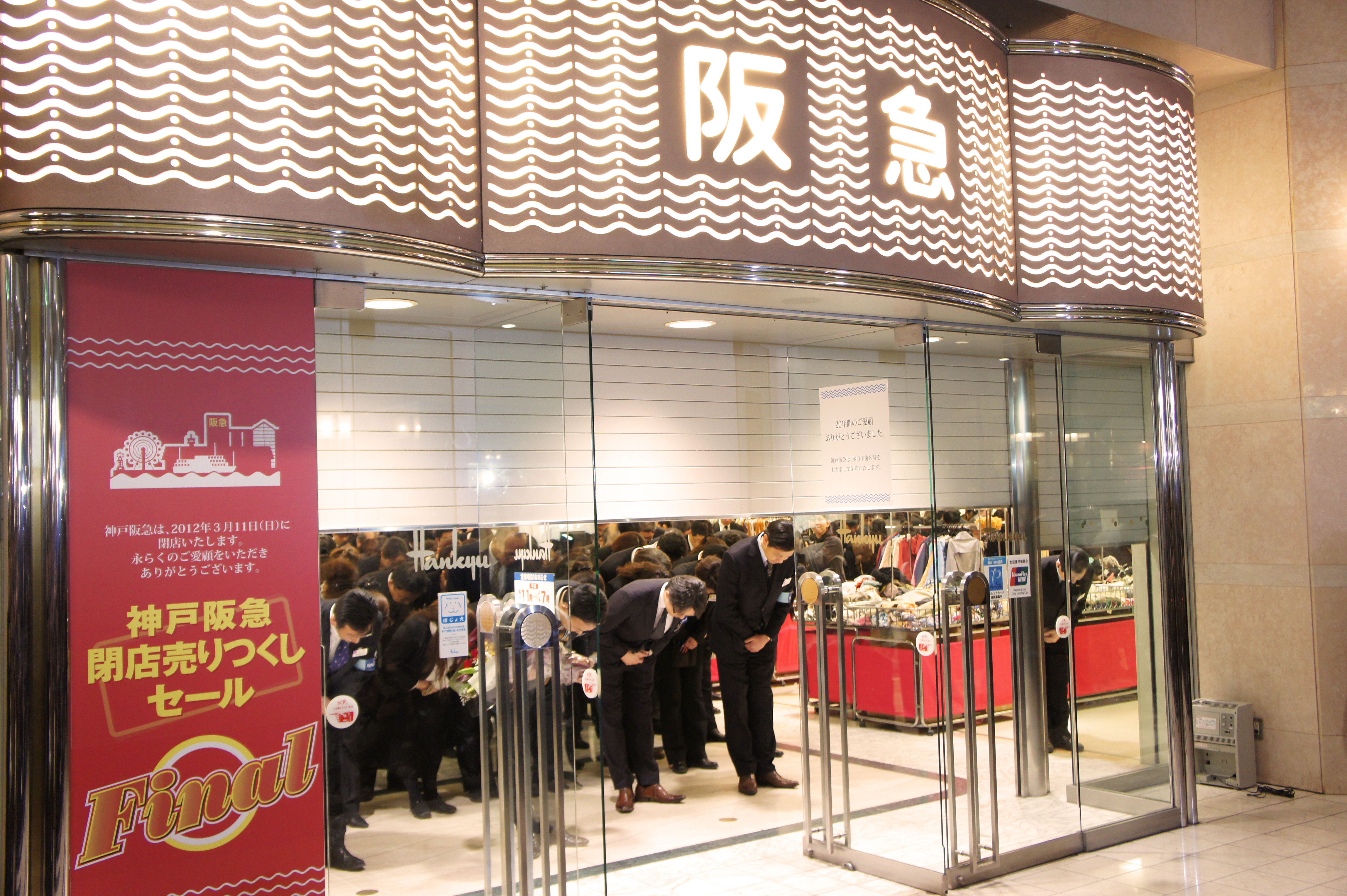 Kobe Hankyu, 1-7-2 Higashi-Kawasakicho Chuo-Ku Kobe-City Hyogo Japan.